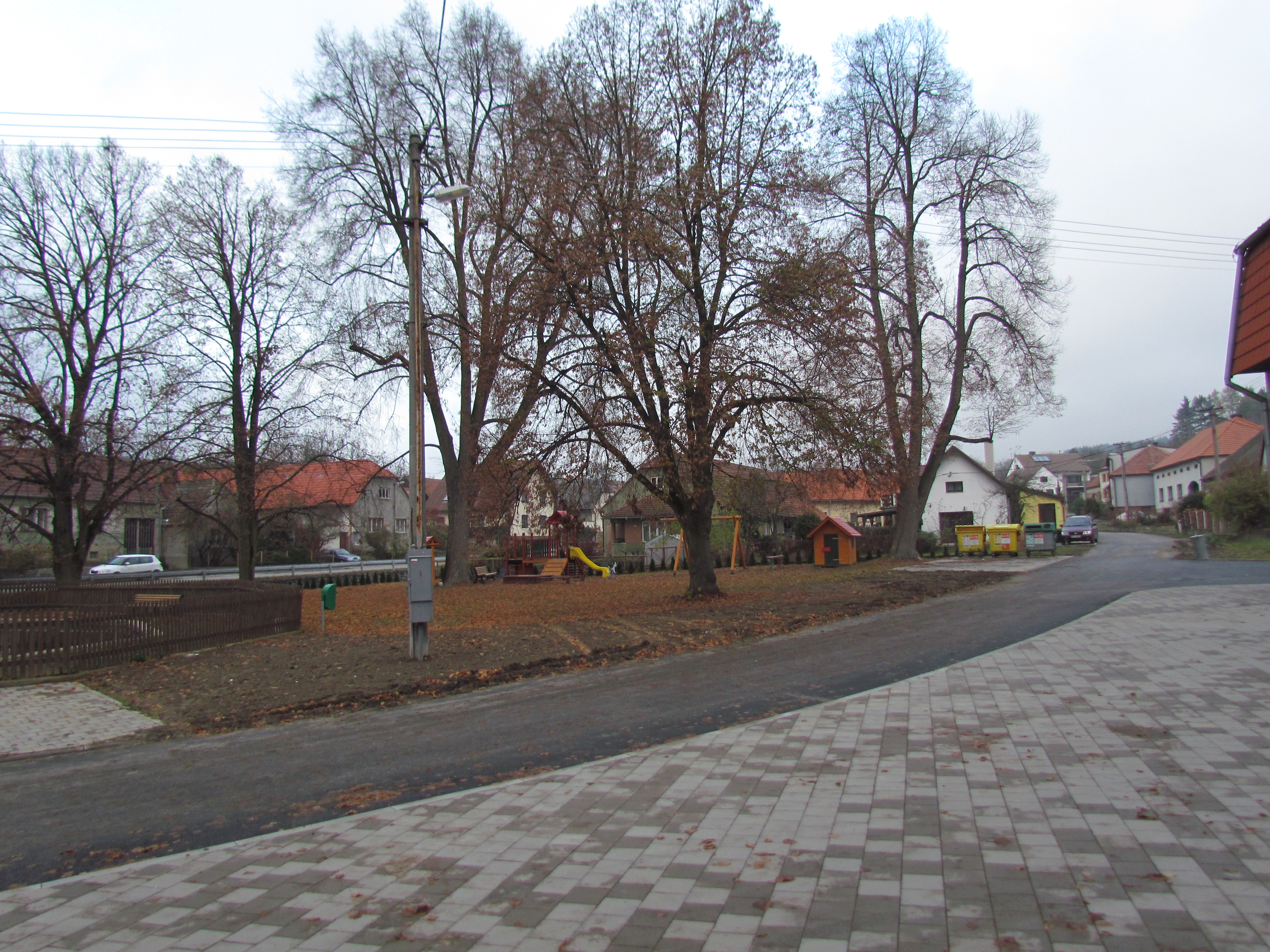 Center of Číhalín, Třebíč District.